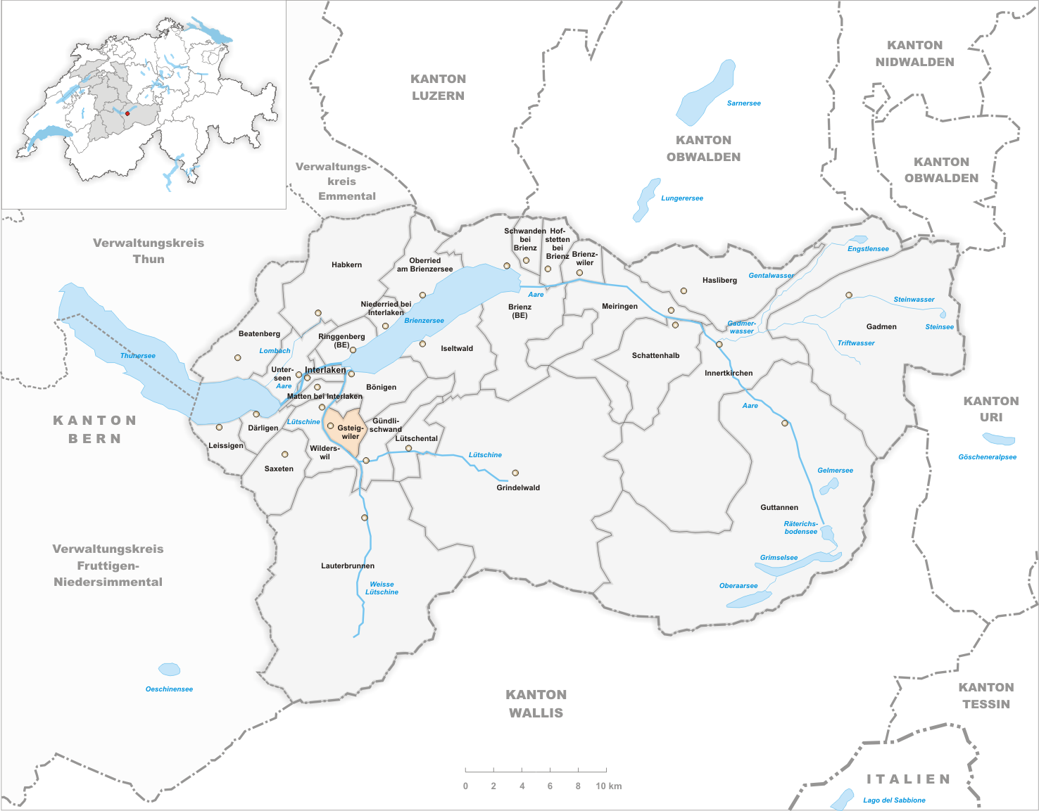 Municipality Gsteigwiler